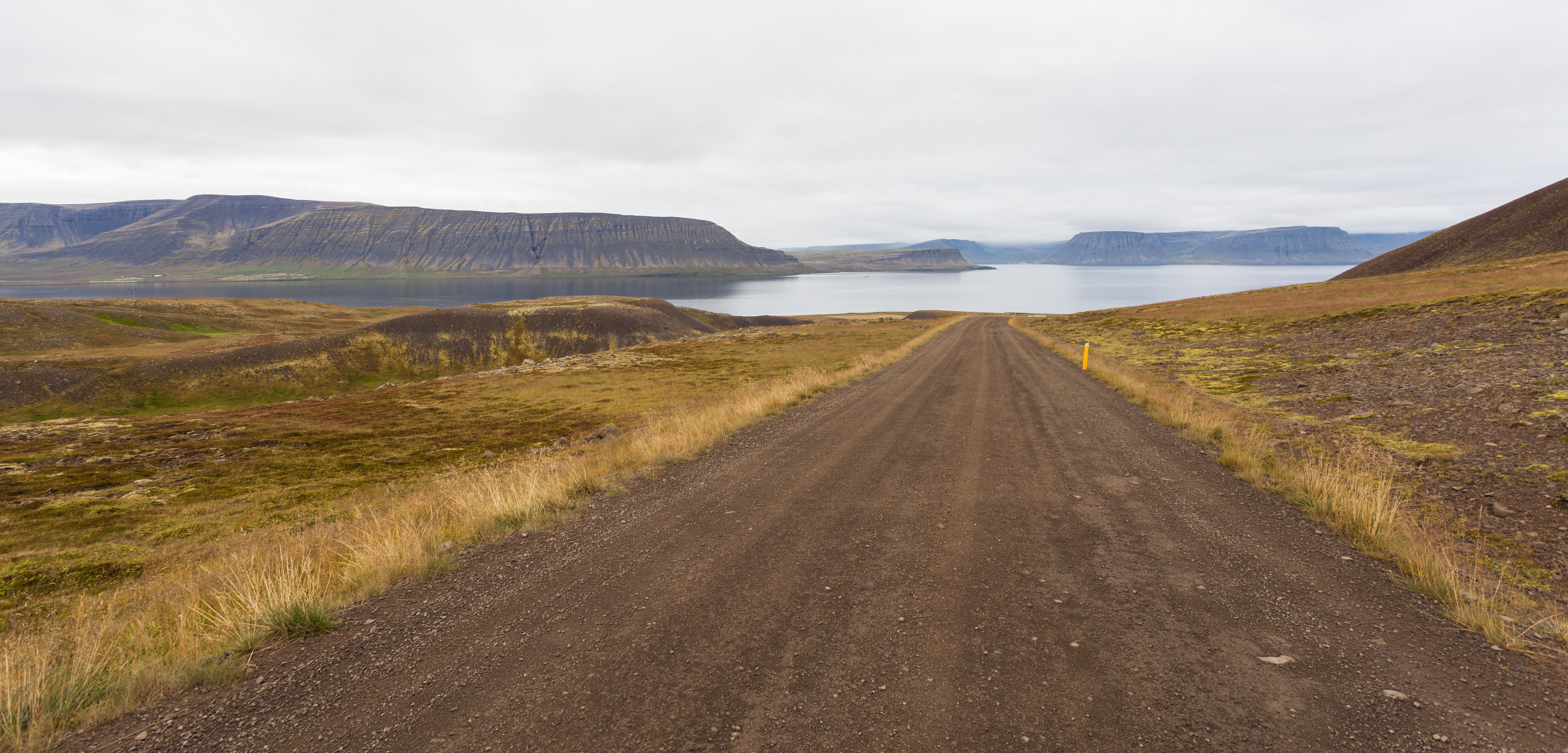 Arnarfjörður, Vestfirðir, Iceland.